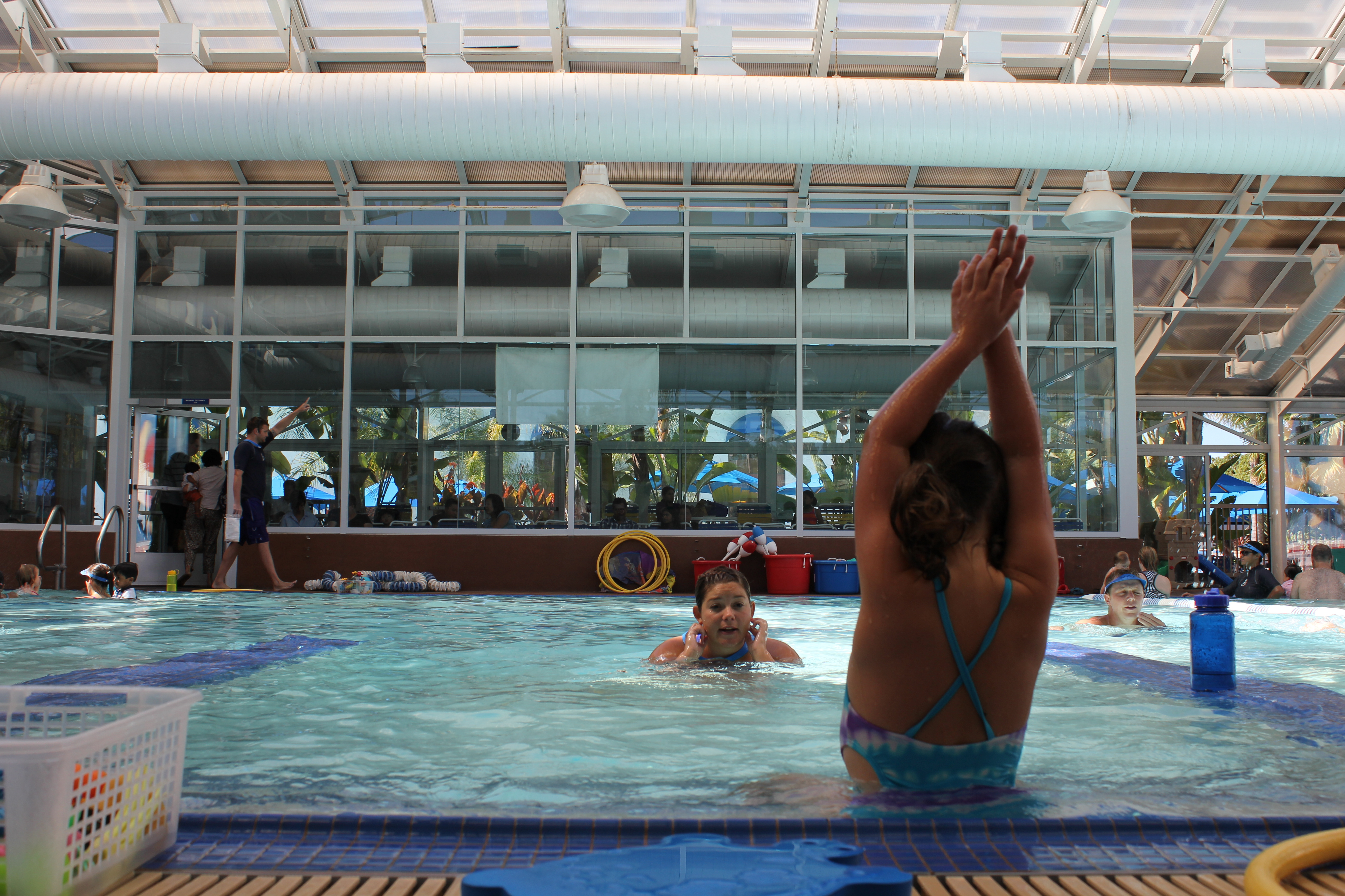 A five-year-old girl listens as her teacher explains how to keep arms up when swimming face-down. Foam board and swim toys are visible in the foreground and group classes are visible in the water far left and right background.